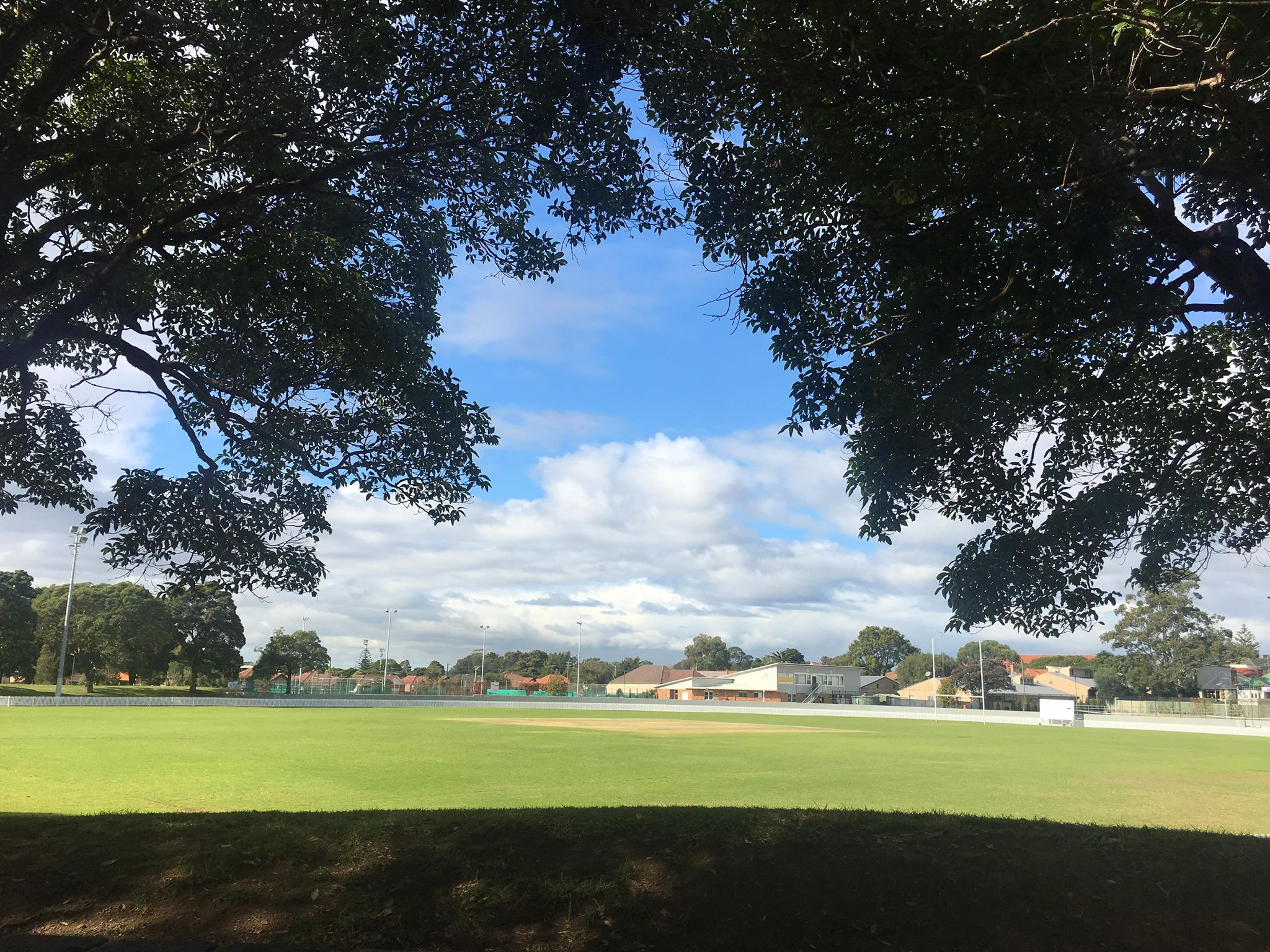 Marrickville Oval, Livingstone Road, Marrickville, 2204, NSW